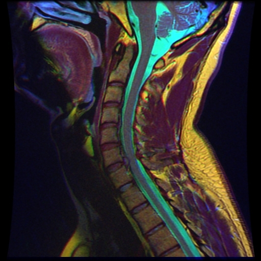 Magnetic resonance imaging of the cervical spine